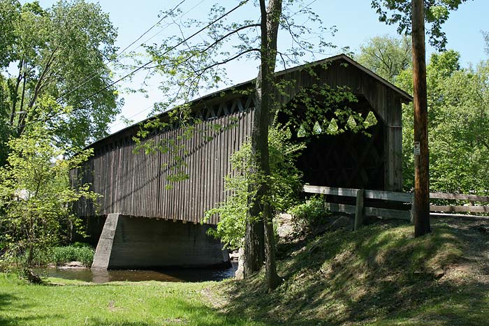 Covered Bridge, the last original covered bridge in Wisconsin, a National Registered Historic Place in the Town of Cedarburg, Wisconsin.